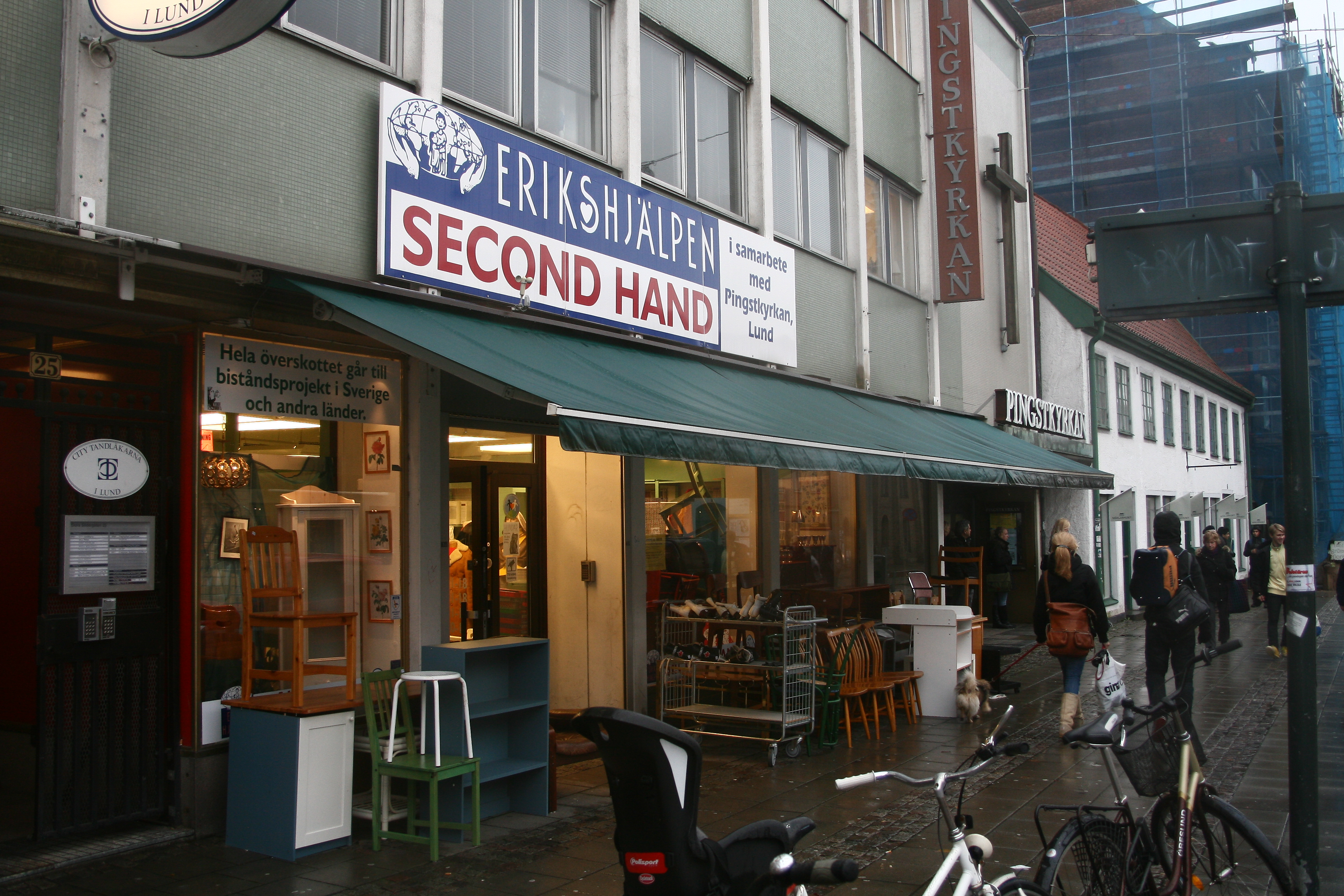 Erikshjälpen (second hand store) with Pingstkyrkan (Pentecostal church), Lund, Sweden.